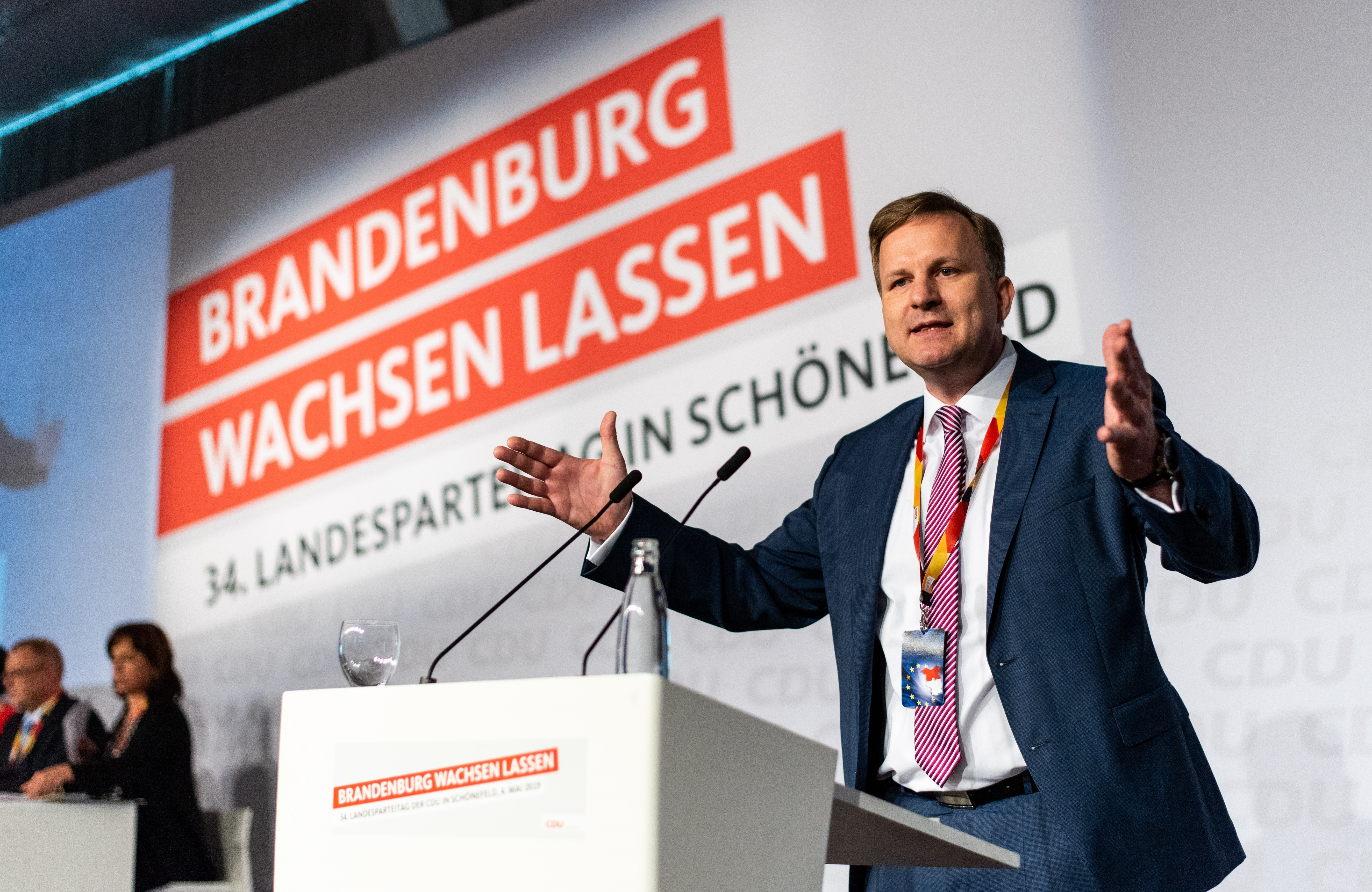 Aufnahme des Generalsekretärs der CDU Brandenburg auf dem Landesparteitag im Mai 2019